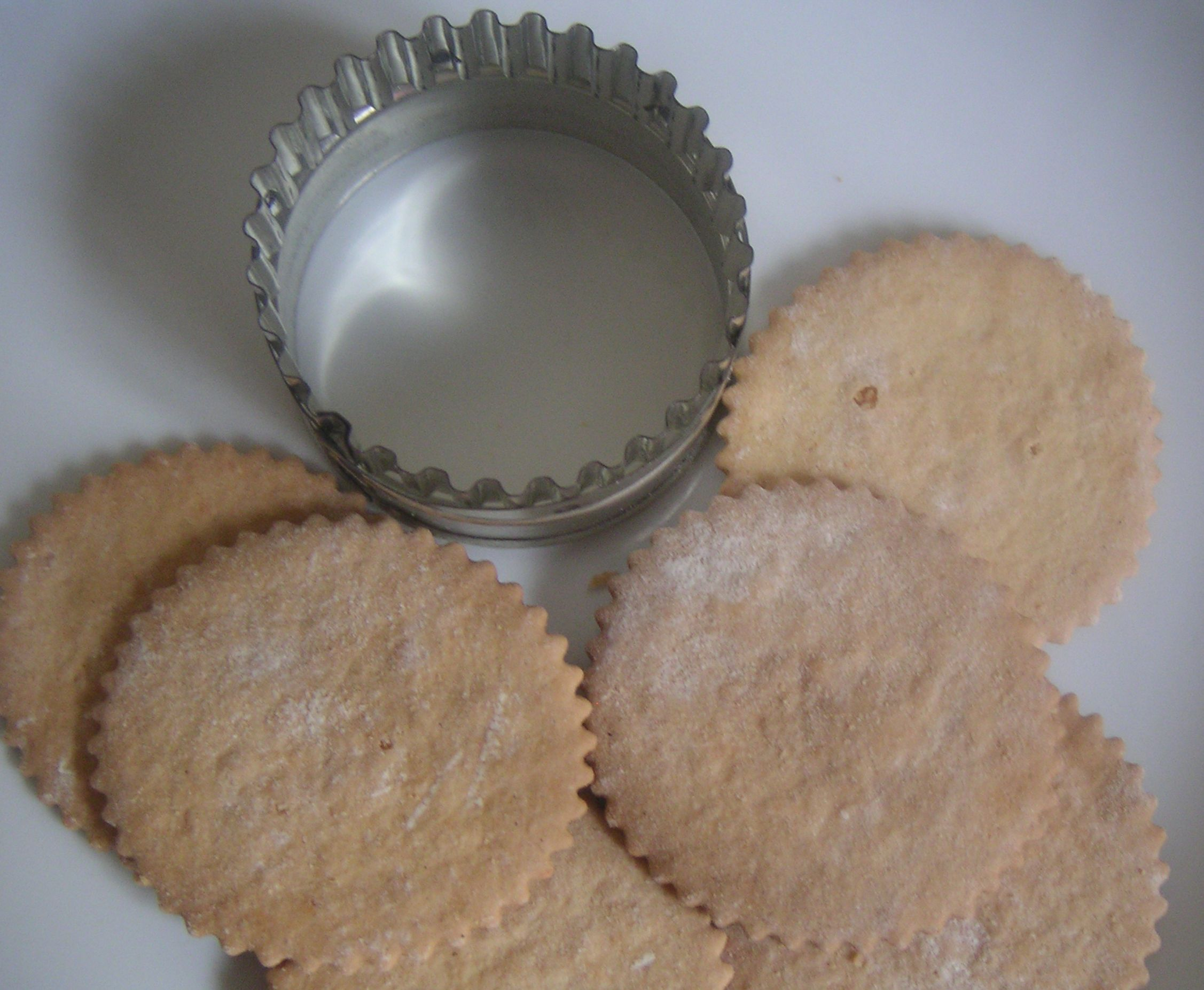 Cutter to shape 'crespellines' entoured de some 'crespellinas'. They are Minorquian cookies made of lard, milk, eggs and flour.